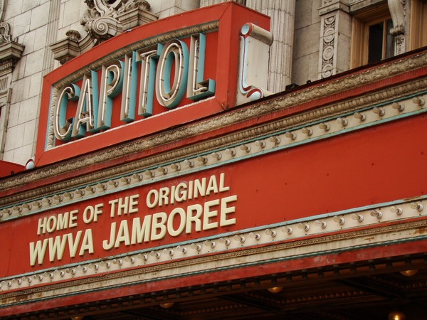 Front signage of the historic Capitol Theatre (formerly Capitol Music Hall) in Wheeling, West Virginia.